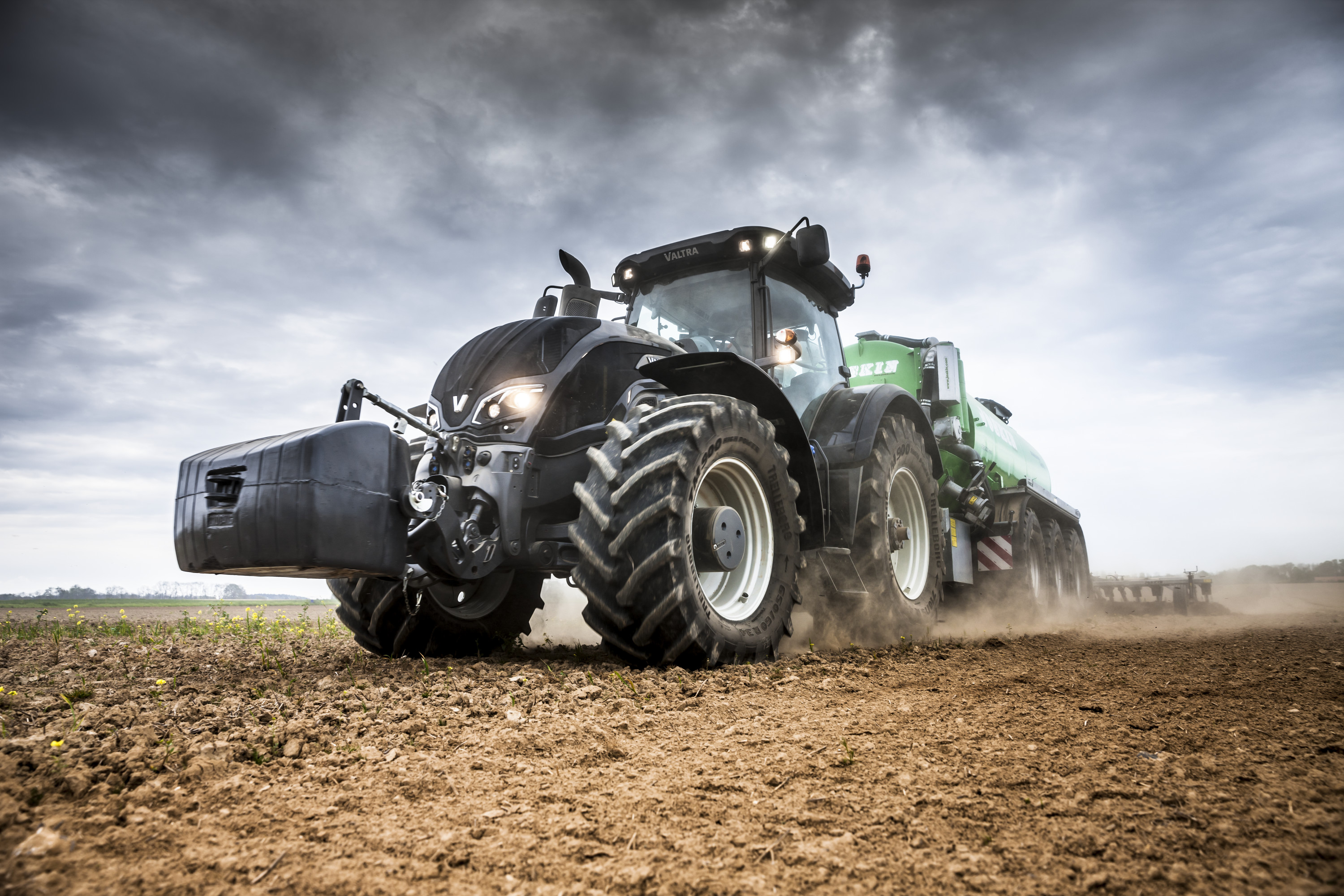 Valtra fourth generation S Series tractors have power up to 400 horsepower.